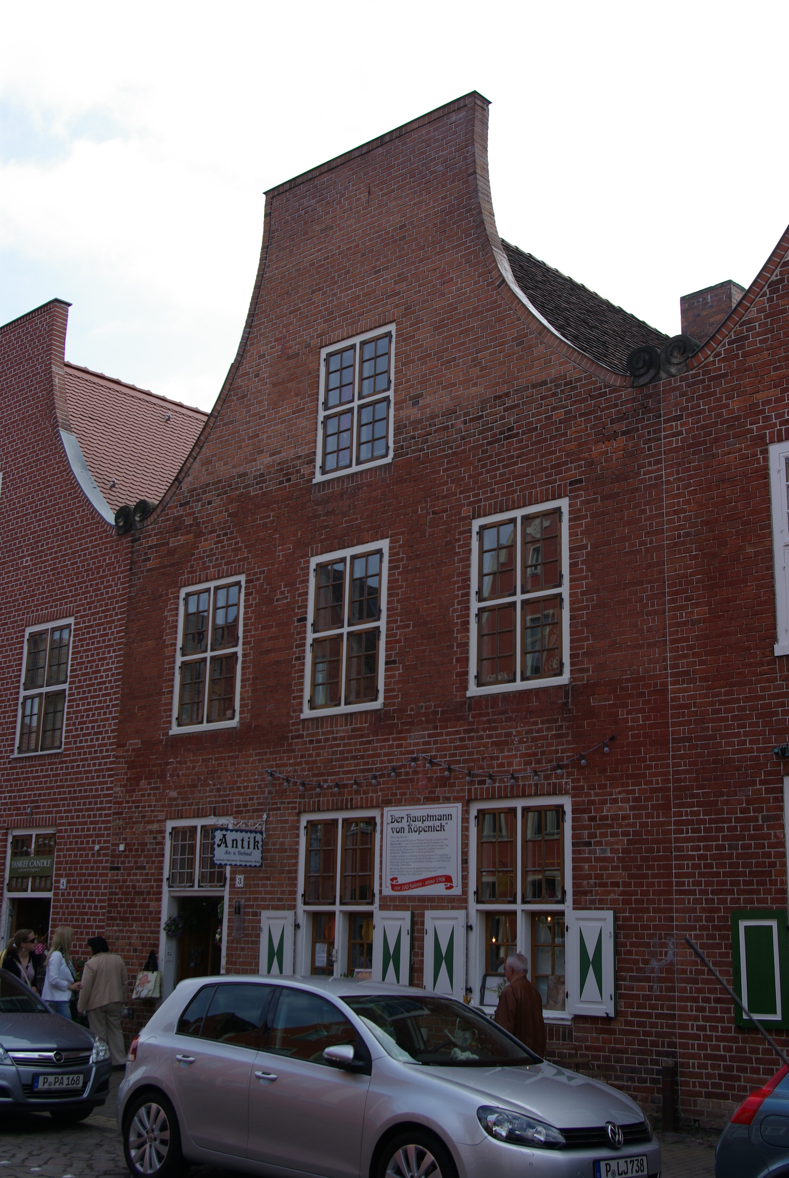 Potsdam in Germany. The house Mittelstraße 2 is a listed building.